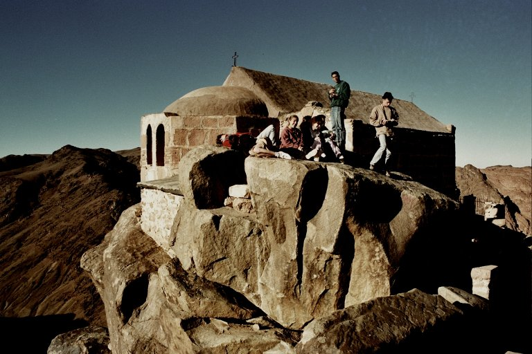 Mount Sinai